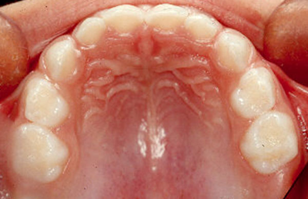 Deciduous upper teeth.